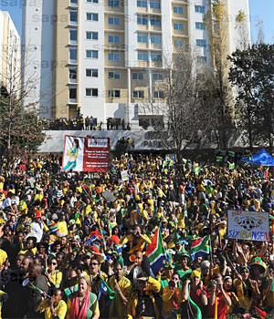 South Africans mark the final countdown to the FIFA World Cup.